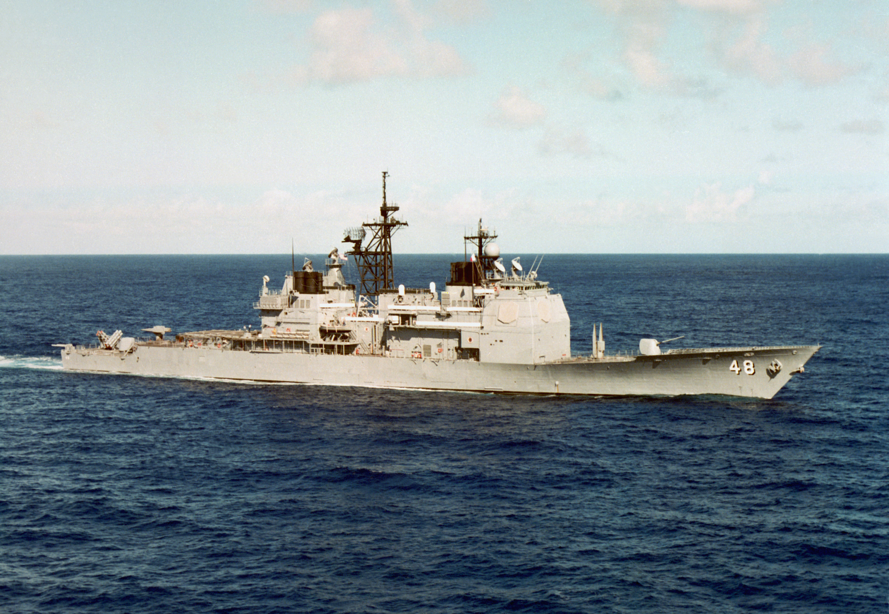 A starboard bow view of the guided missile cruiser USS Yorktown (CG-48) underway in the Caribbean Sea.